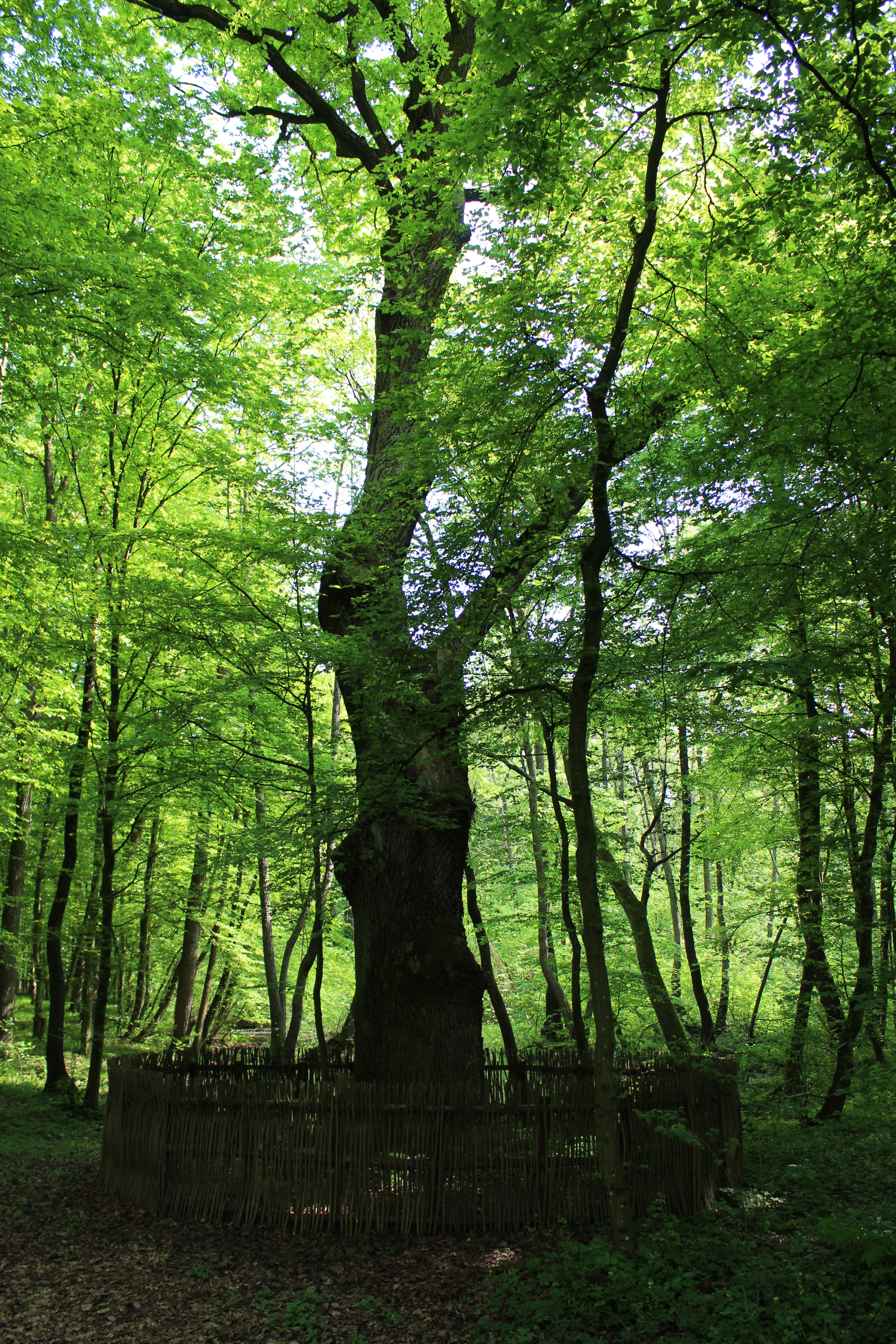 Polesie National Park - "Dąb Dominik" Trail